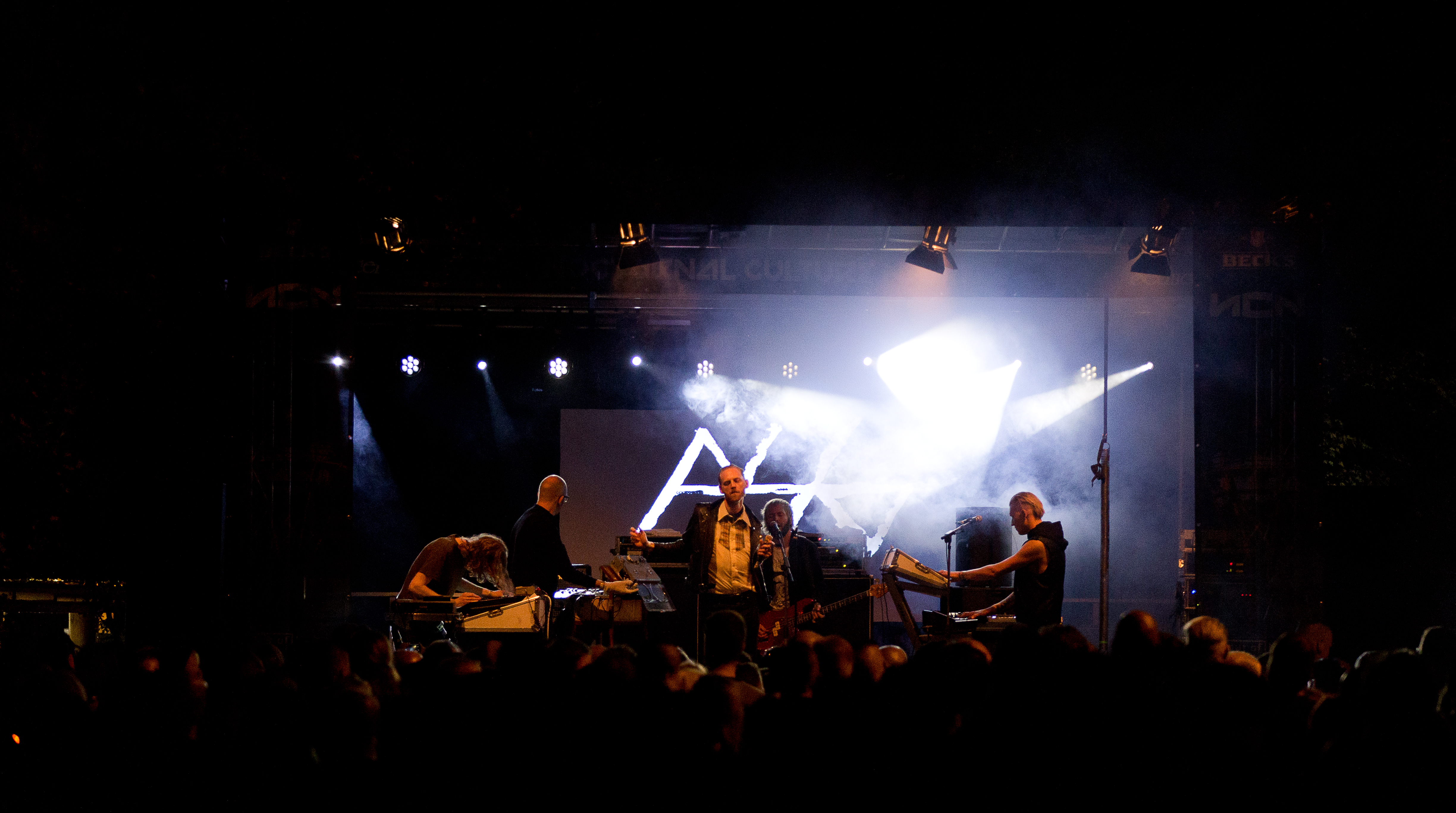 The Swedish electronic/post-punk band Agent Side Grinder at the Nocturnal Culture Night 11 2016 in Deutzen/Germany.